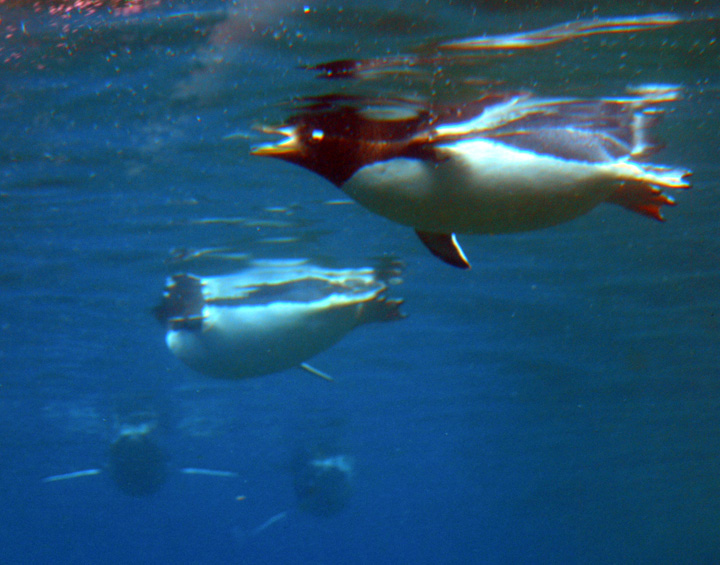 Underwater Penguins at Edinburgh Zoo in 2004. Taken by myself with an Olympus C8080W.